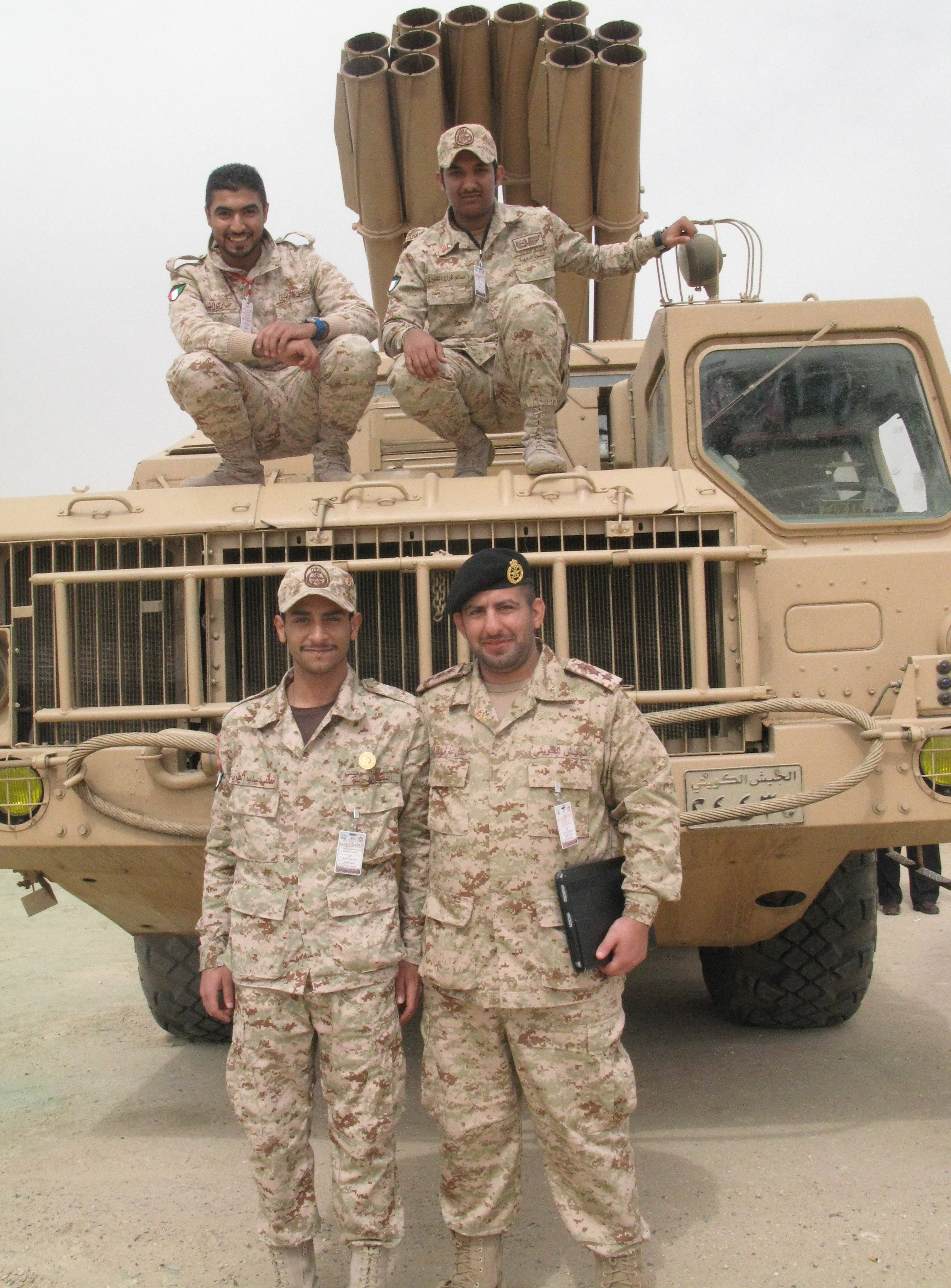 Kuwaiti soldiers stand in front of their BM-30 Smerch multiple rocket launcher in Subiya, Kuwait.